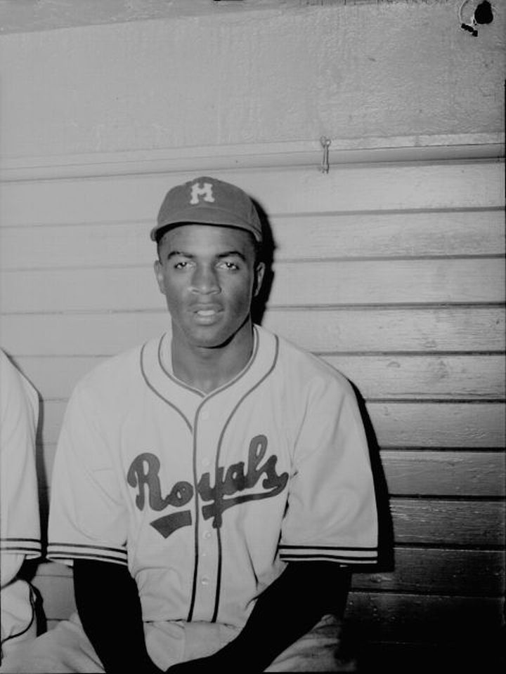 Baseball player Jackie Robinson of the Montreal Royals.